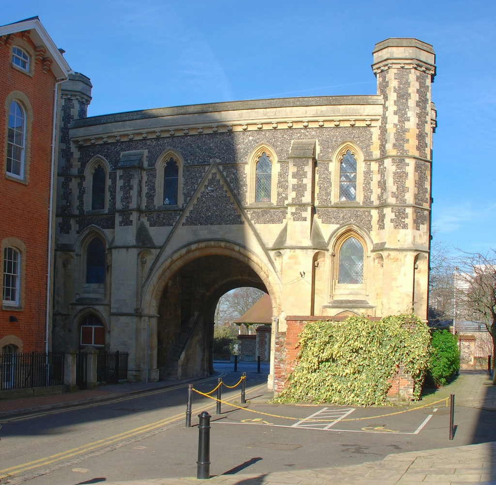 The former inner gatehouse of Reading Abbey, in the English town of Reading, is one of only two non-ruined buildings remaining. For more information, see the wikipedia article Reading Abbey.